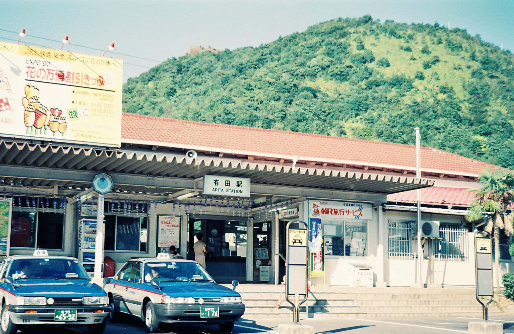 Arita Station